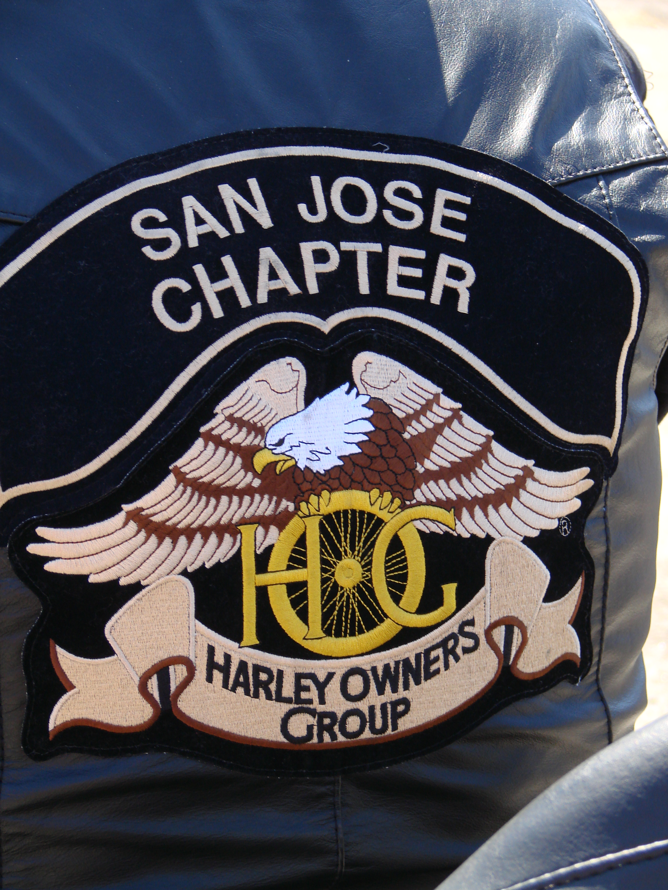 Harley Owners Group, San Jose Chapter patch on jacket